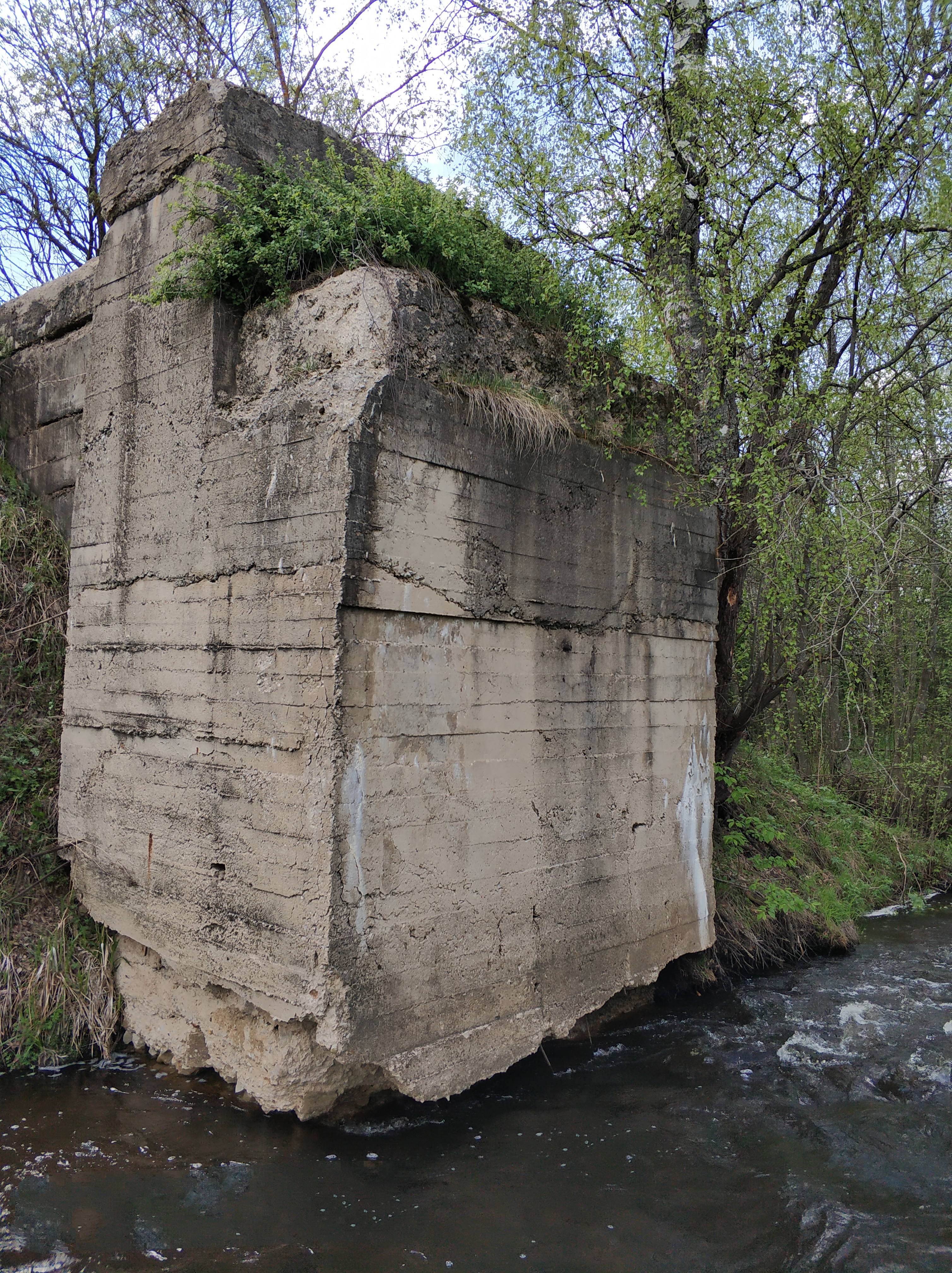 Reinforced concrete supporting structure of the narrow-gauge railway bridge of the Izdeshkovsky lime plant.